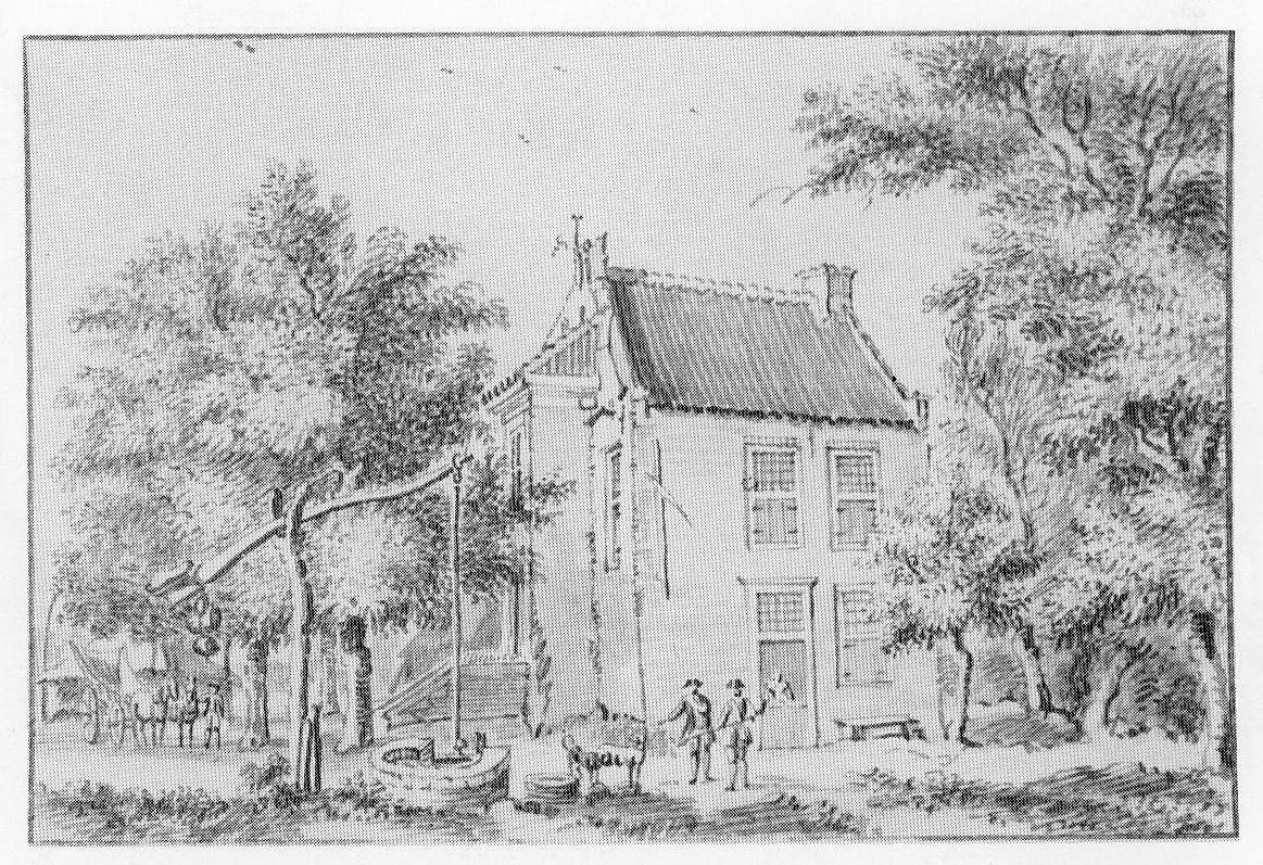 Prattenburg near Rhenen